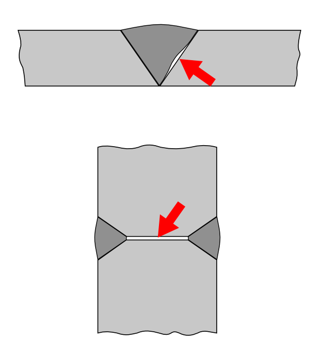 Void by welding